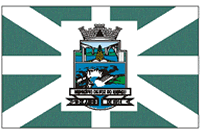 Flag of city of Foz do Iguaçu